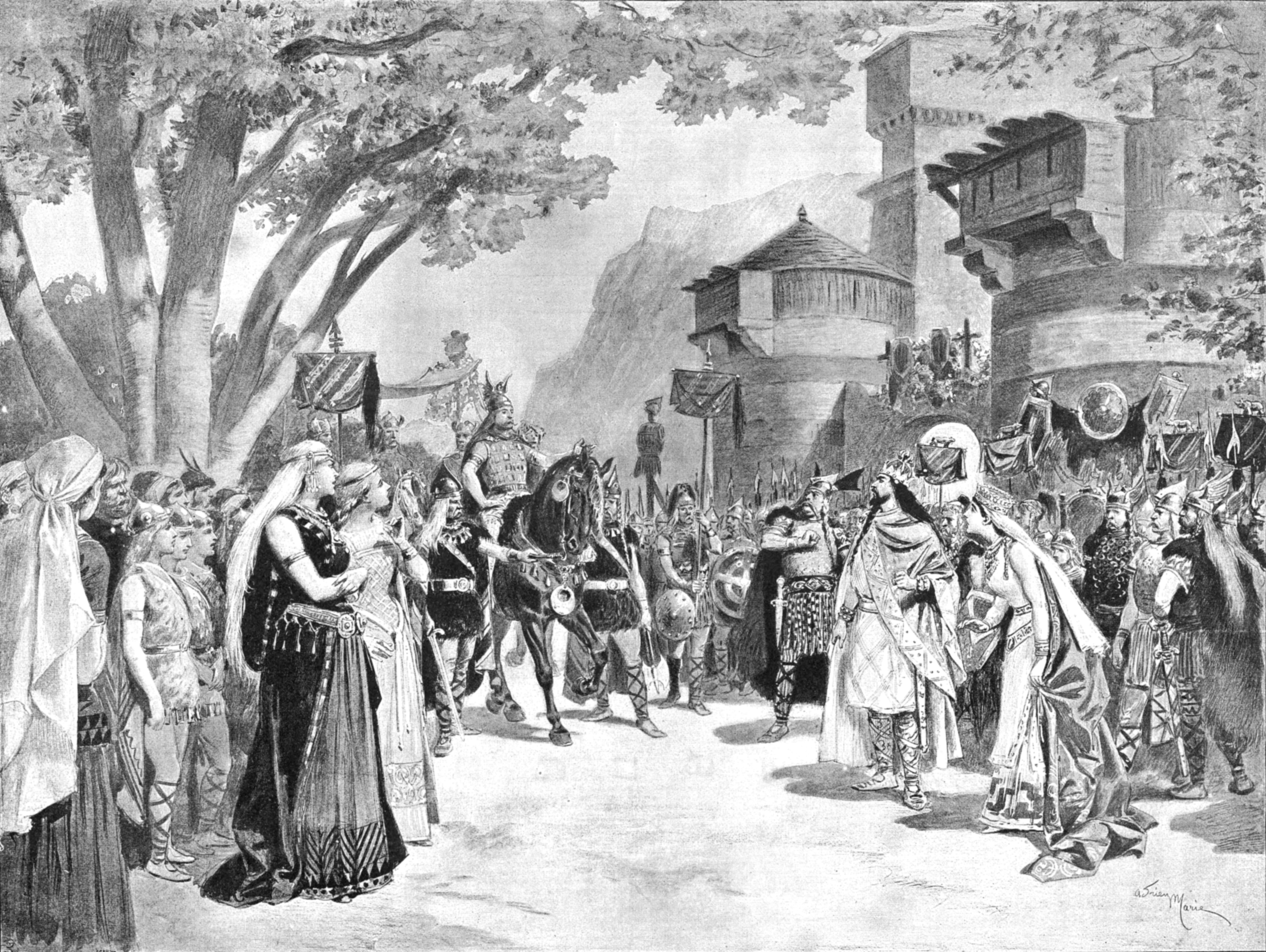 Ernest Reyer - Sigurd - Palais Garnier, 12-06-1885 - 3.acte 2.tableau - M.Lavastre, Tilly